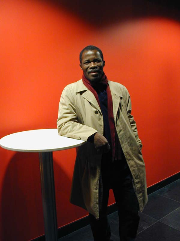 Picture of the ivorian Artist Gilbert G. Groud